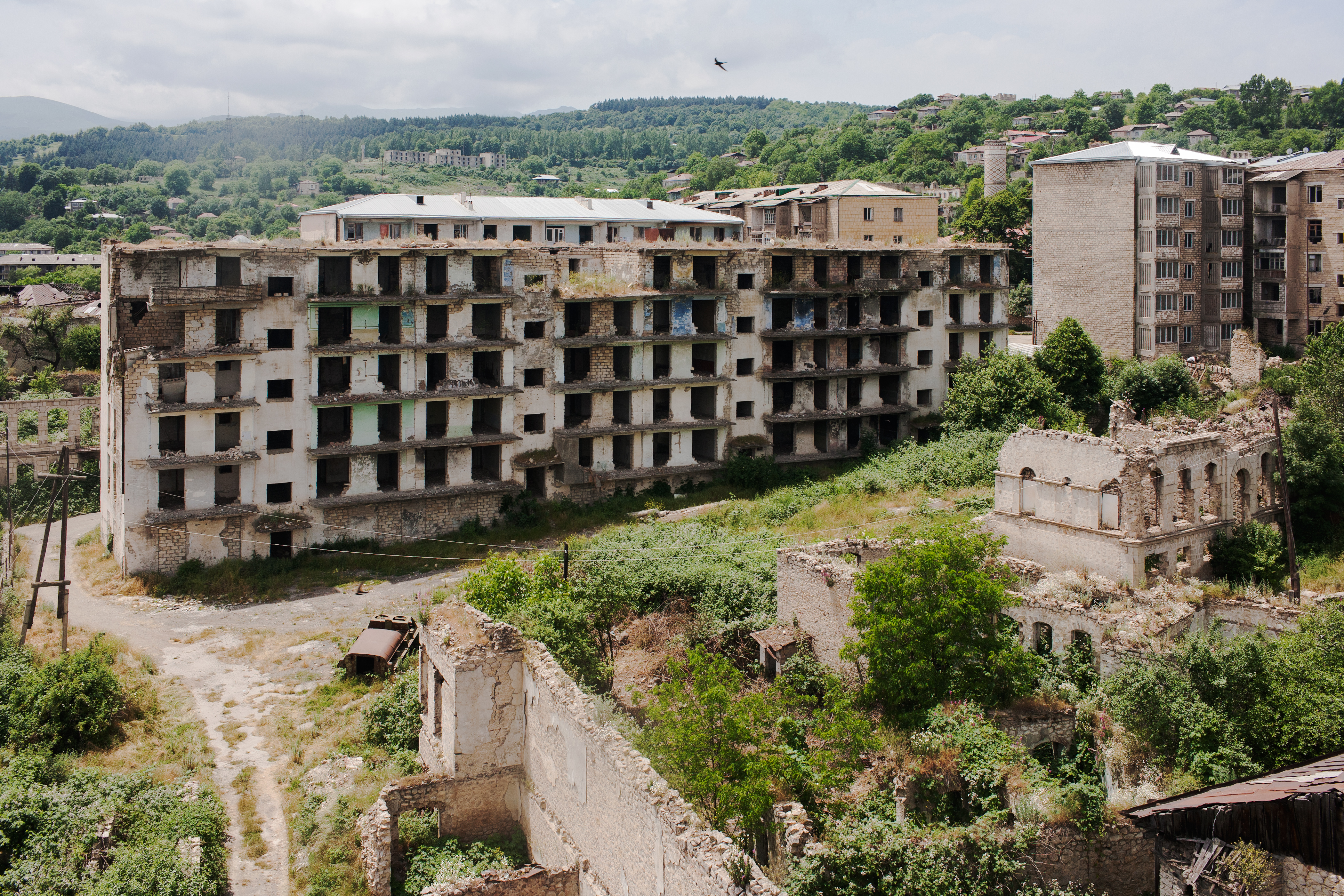 Part of Shushi was still in ruins in 2010, some 18 years after the Armenian forces captured the city.